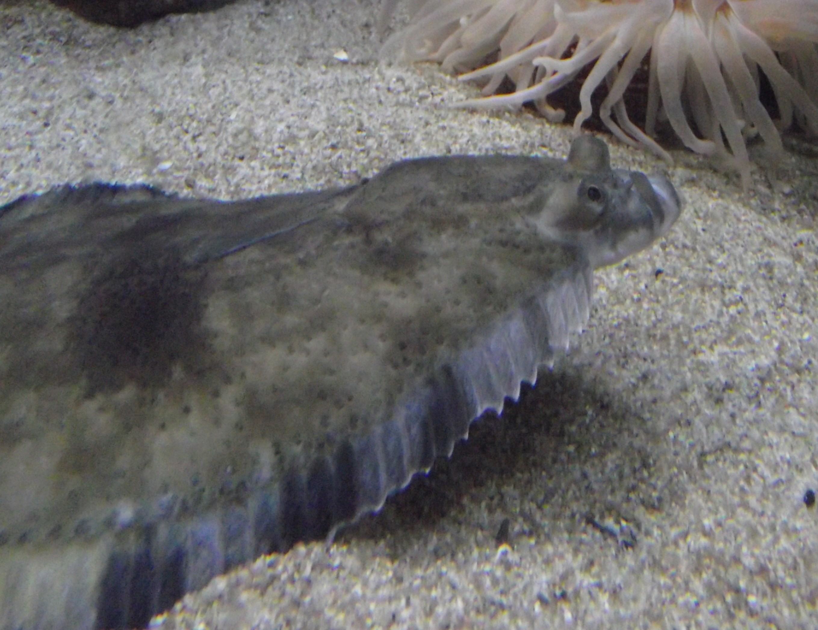 Platichthys stellatus at the Birch Aquarium, San Diego, California, USA.